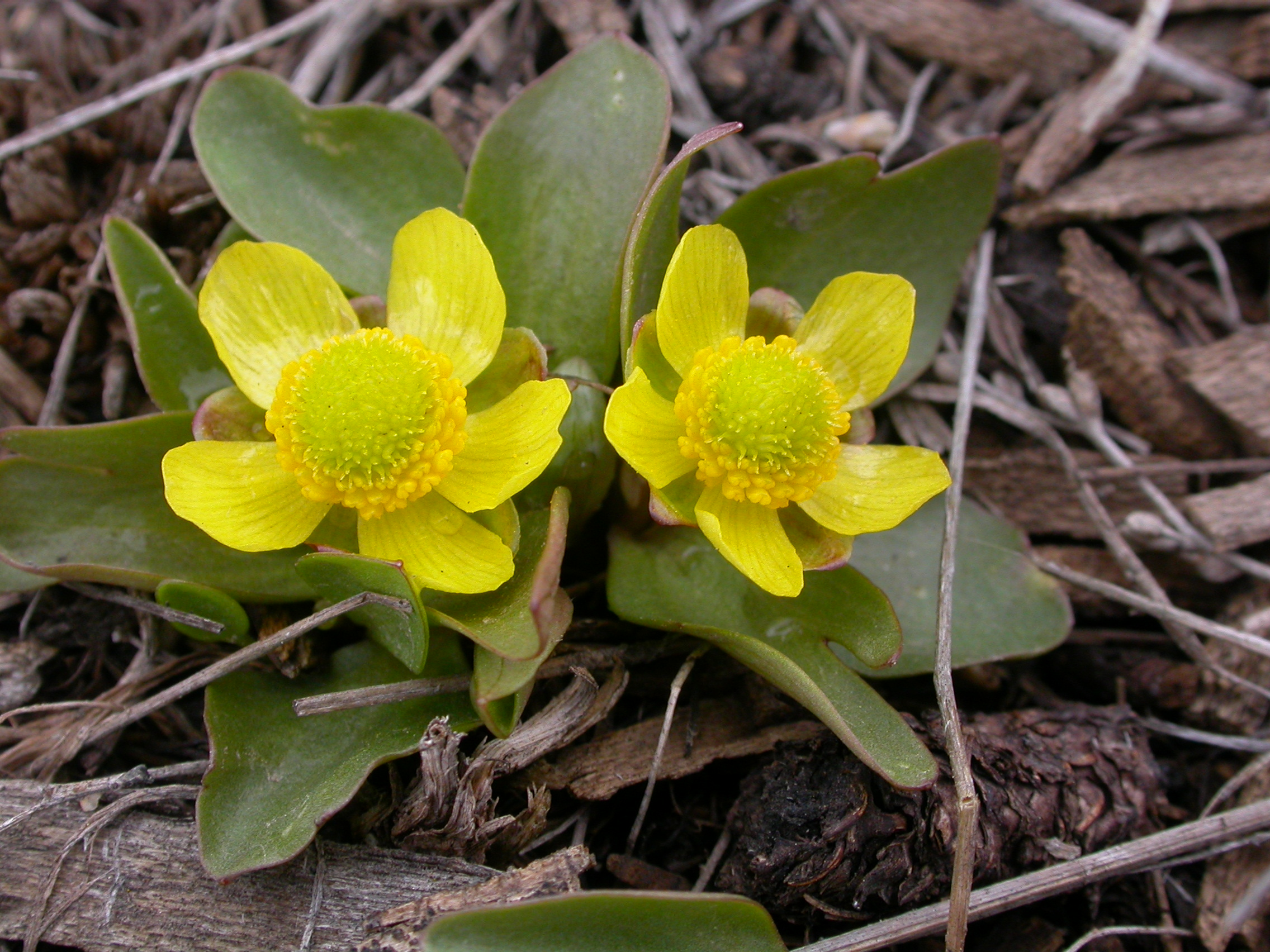 This early flowering species of the sagebrush steppe is locally common and not everywhere to be found including in mountain big sagebrush habitats.